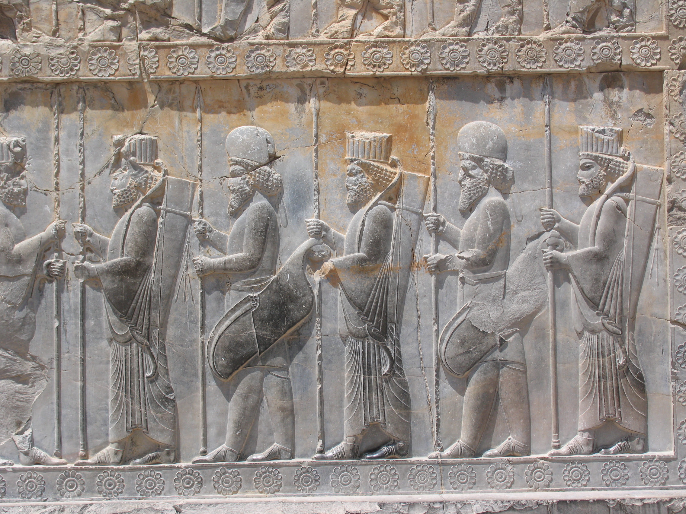 Detail from the Apadana Palace, northern stairway - showing a Persians followed by a Mede soldiers in traditional costumes, Persepolis, Iran. 515 BC.